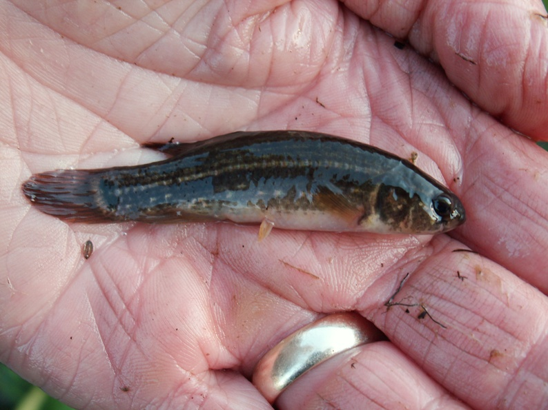 Umbra pygmaea. Location: The Netherlands - Swartbroek - De Krang